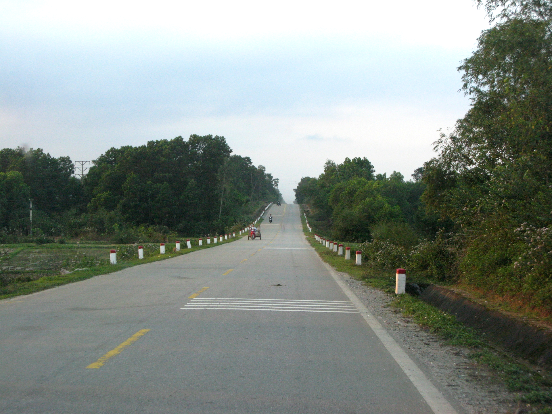 Ho Chi Minh Highway in Huong Khe District, Ha Tinh Province, Vietnam.